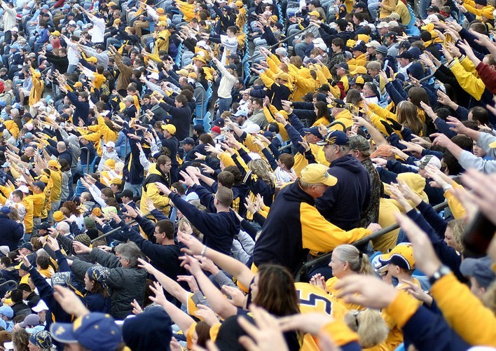 West Virginia University football fans performing the school's "1st Down" cheer.